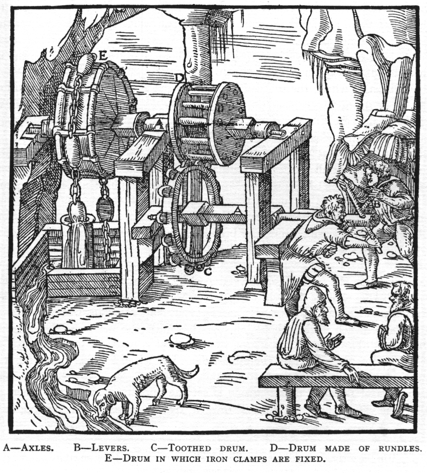 Woodcut illustration from De re metallica by Georgius Agricola. This is a 300dpi scan from the 1950 Dover edition of the 1913 Hoover translation of the 1556 reference. The Dover edition has slightly smaller size prints than the Hoover (which is a rare book). The woodcuts were recreated for the 1913 printing. Filenames (except for the title page) indicate the chapter (2, 3, 5, etc.) followed by the sequential number of the illustration.